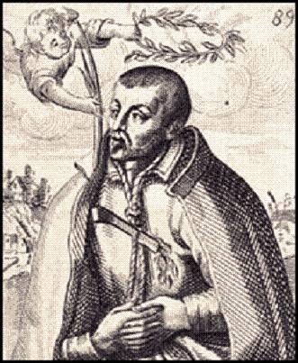 Saint Robert Southwell, S.J. (1561-1595). Illustration from the frontispice of Saint Peter's complaint.